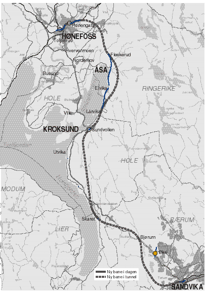 Map of proposed Ringeriksbanen railway line, from Sandvika to Hønefoss, Norway.